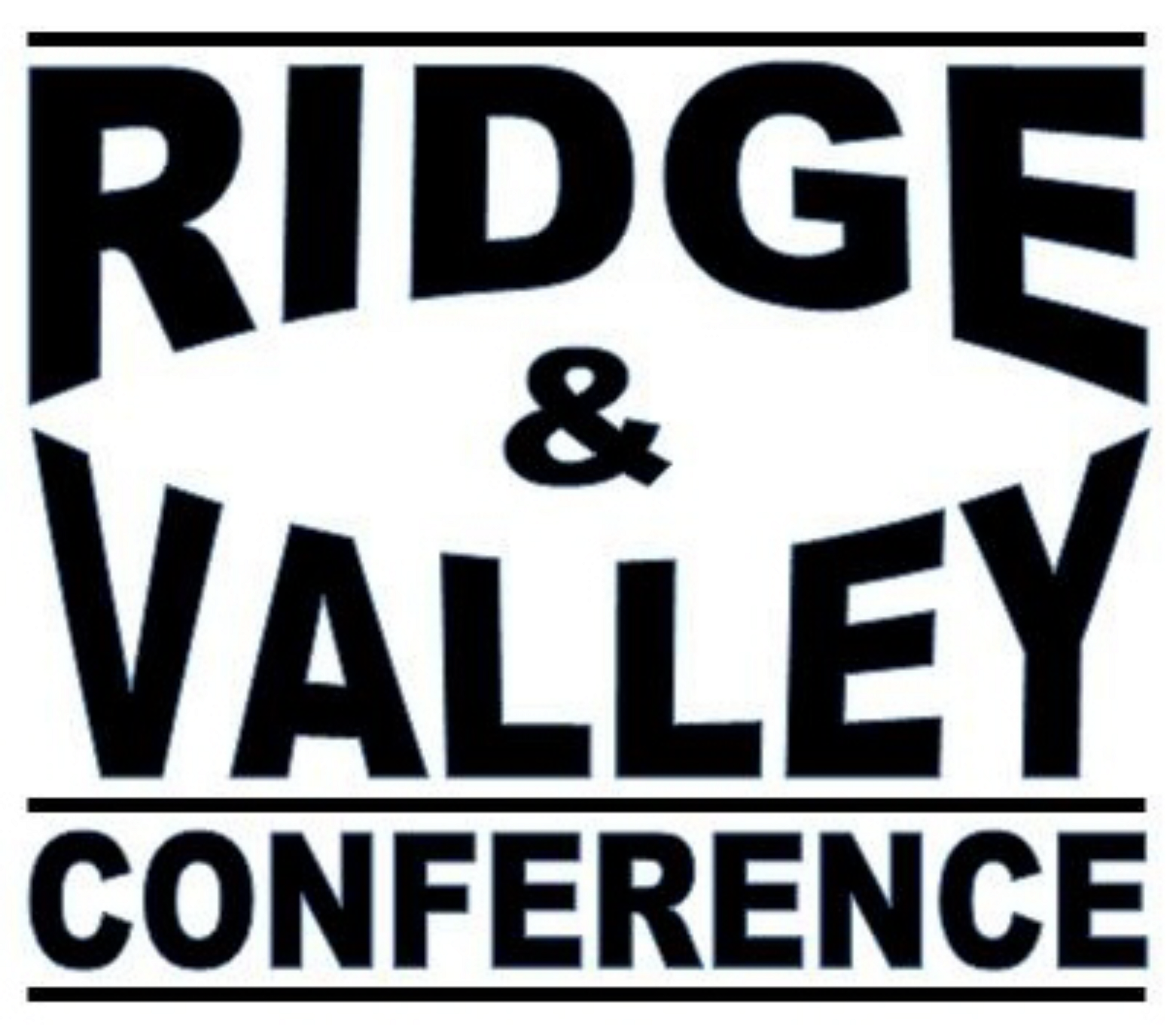 The Ridge & Valley Conference is a high school sports conference located in southwest Wisconsin.